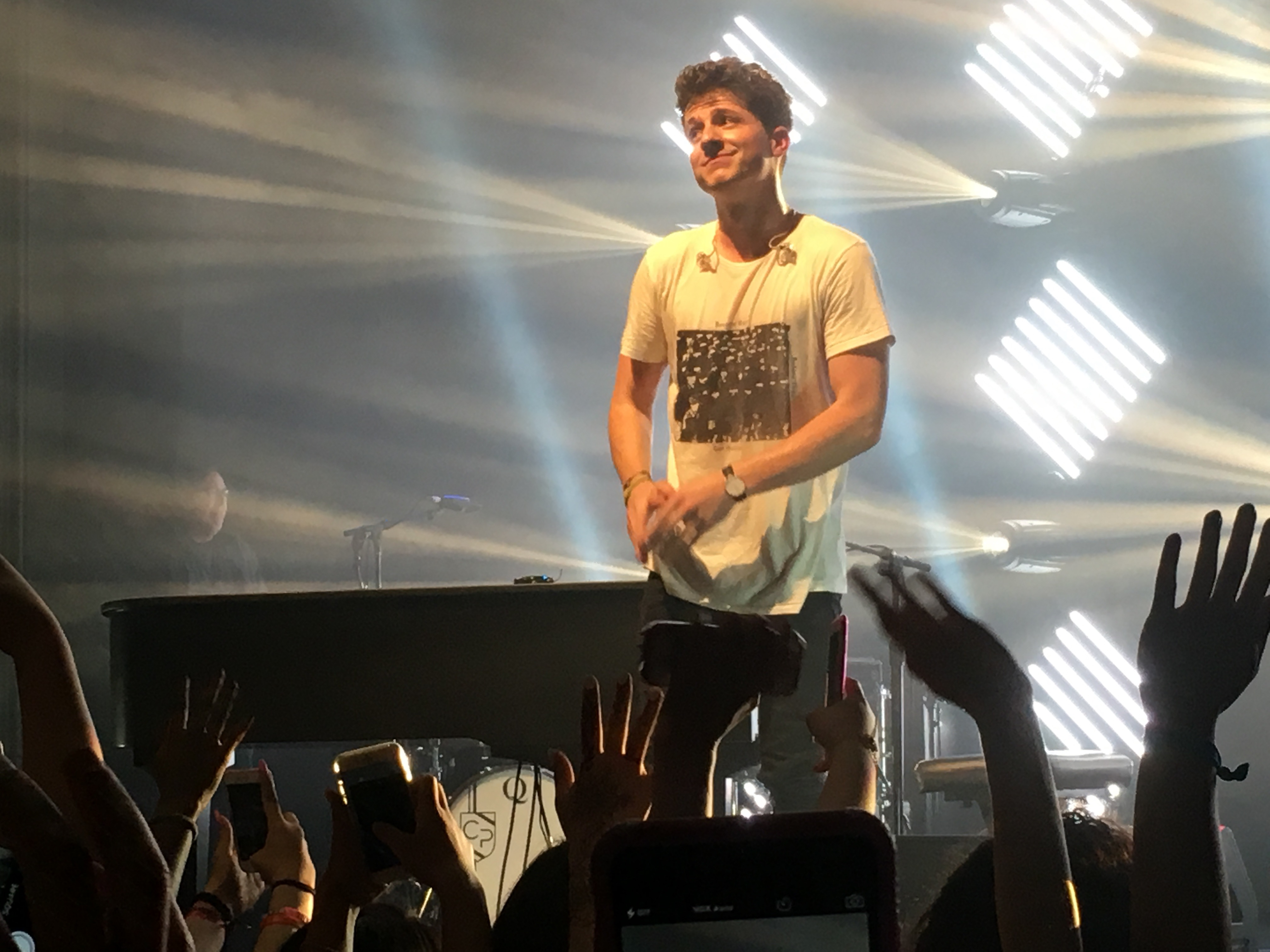 Charlie Puth performing at the Regency Ballroom in San Francisco as part of his Nine Track Mind Tour in March 2016